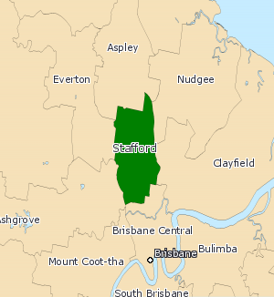 Electoral district of Stafford (Queensland, Australia)